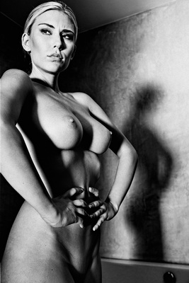 Photograph by Adolf Zika